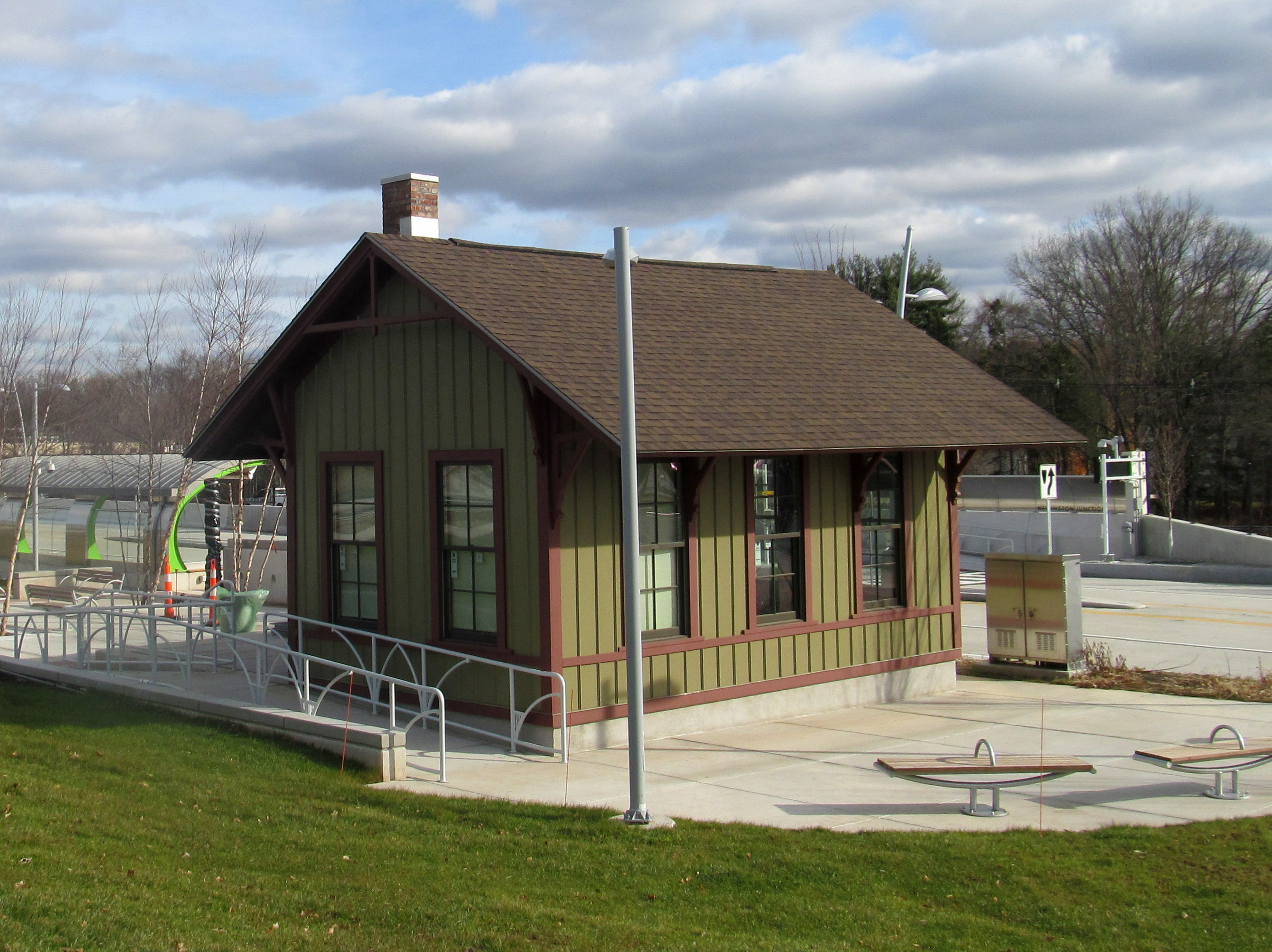 The 1891-built NY&NE station at Newington Junction in December 2014. Earlier in 2014, it was refurbished and moved to this location as part of the CTfastrak busway project.